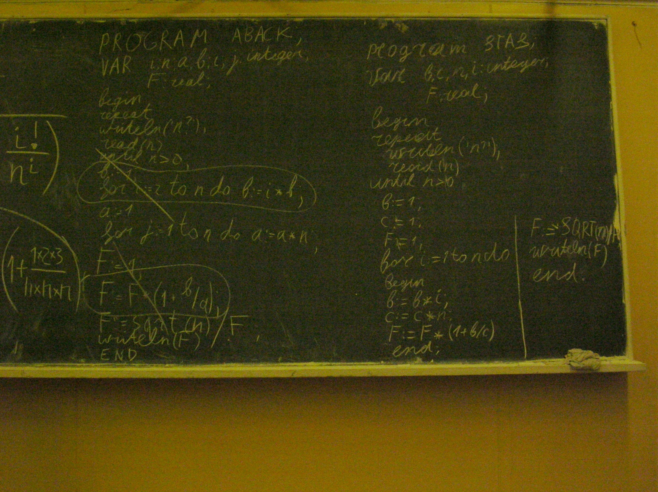 Two variants of Turbo Pascal program on the blackboard